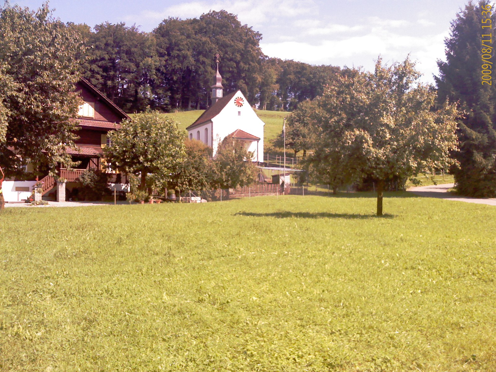 Church of Wallenschwil, municipality of Beinwil (Freiamt), canton of Aargau, SwitzerlandEsperanto: Preĝejeto de Wallenschwil, komunumo Beinwil (Freiamt), Kantono Argovio, Svislando